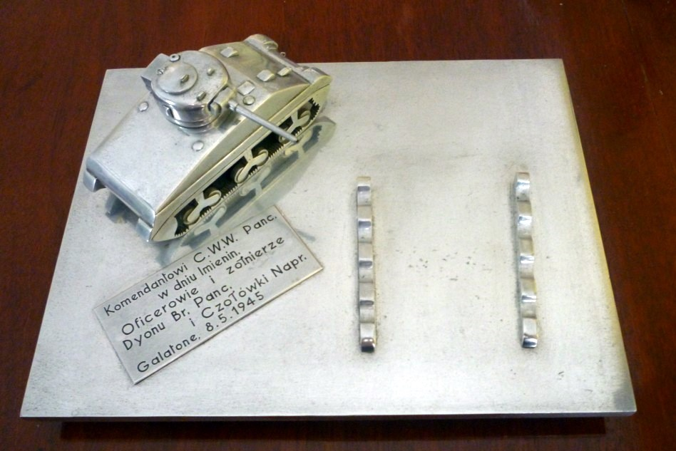 Ink well(Sherman tank) on pen tray. Gift to Lt. Col. Szostak from officers and men of Battle Tank Unit and Repair Centre Unit